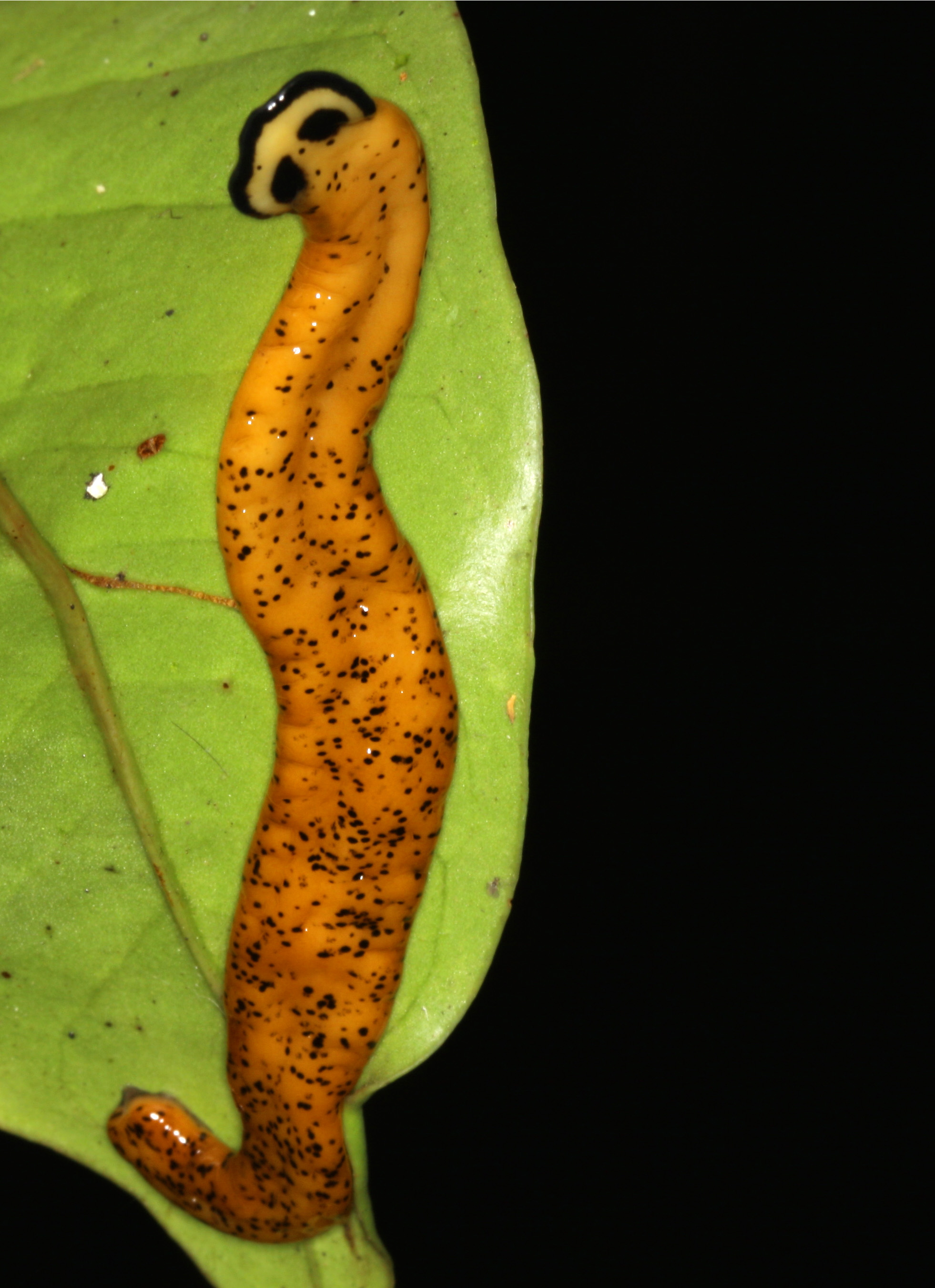 L: ~10-15 cm Subfamily: Bipaliinae ? (Arrowhead Flatworms) Family: Geoplanidae STIMPSON, 1857 (Land planarians) Superfamily Geoplanoidea STIMPSON, 1857 Suborder: Continenticola CARRANZA et al., 1998 (Syn.: Terricola; terrestrial flatworm, Landplanarie) Order: Tricladida LANG, 1884 (triclads) (Order: Seriata BRESSLAU, 1928-1933) Class: Turbellaria EHRENBERG, 1831 (turbellarian flatworms, Strudelwürmer) Phylum: Plathelminthes GEGENBAUR, 1859 (flatworm, Plattwürmer) more info: and: and: interesting overview: Soft, broad, ciliated bodies, a three-branched digestive cavity, and the ability to regenerate body parts; usually living in fresh water, only few species are terrestrial. Indonesia, Sulawesi-Central, Lore Lindo NP: Tambing Lake, ca. 1500m asl., 08.05.2010 _____________________________________________________________________ 100mm macro (canon 2.8), 1/160s, f/16, ISO100, 0EV, internal flash IMG_0890 (photo by Guido Bohne)